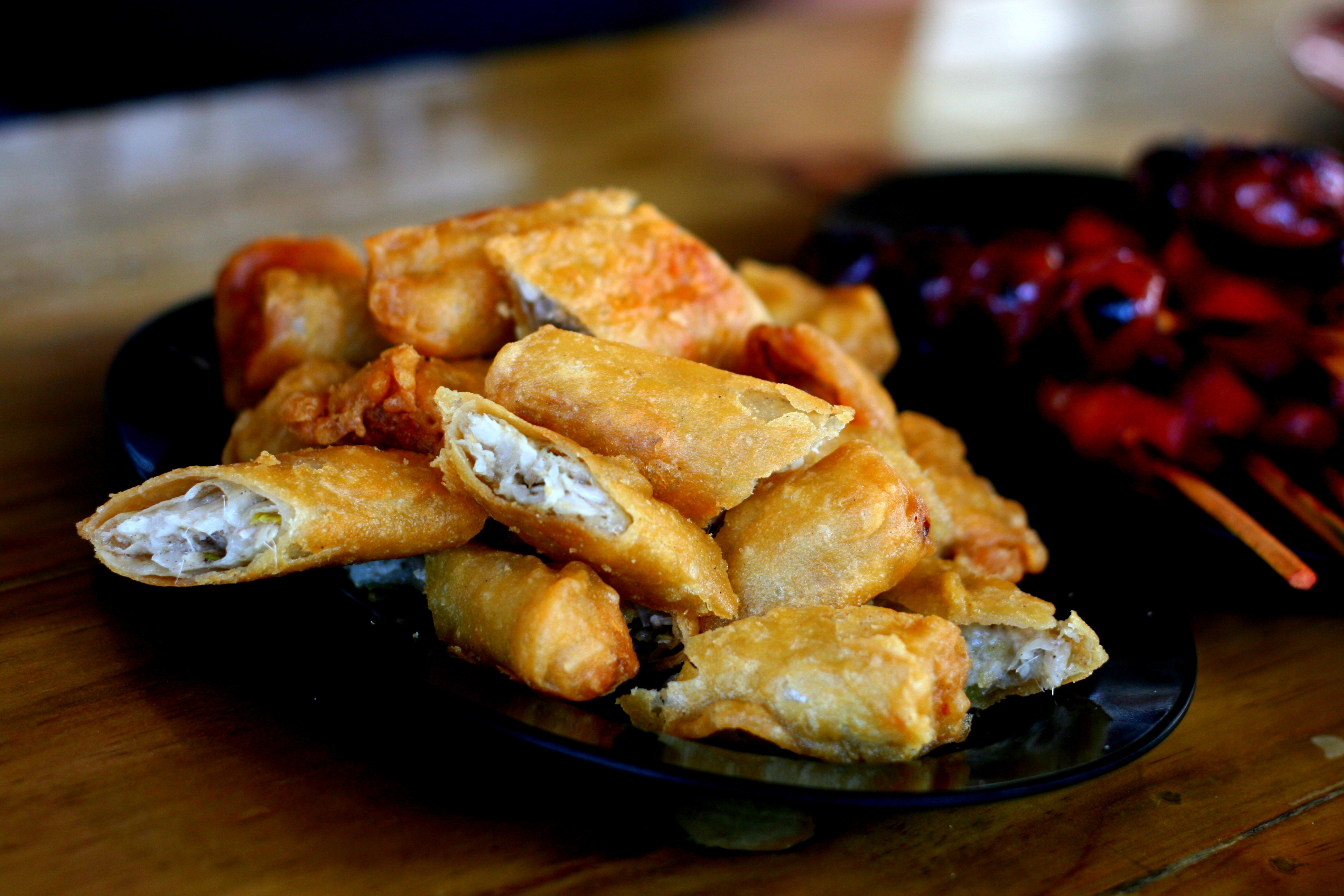 Cheverz Banilad, Cebu City